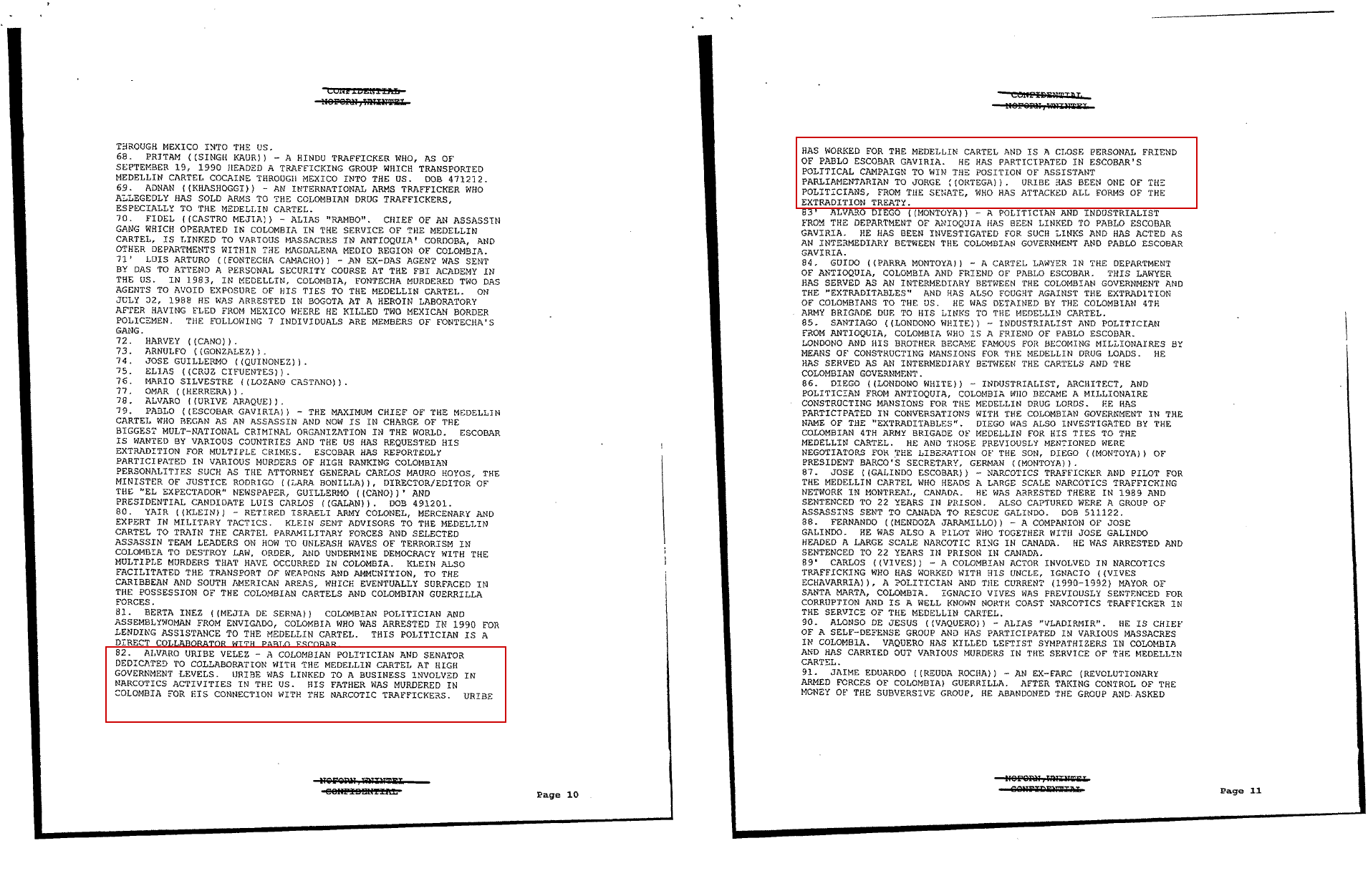 Declassified information of the department of state listing suspected narcotraffickers profiles